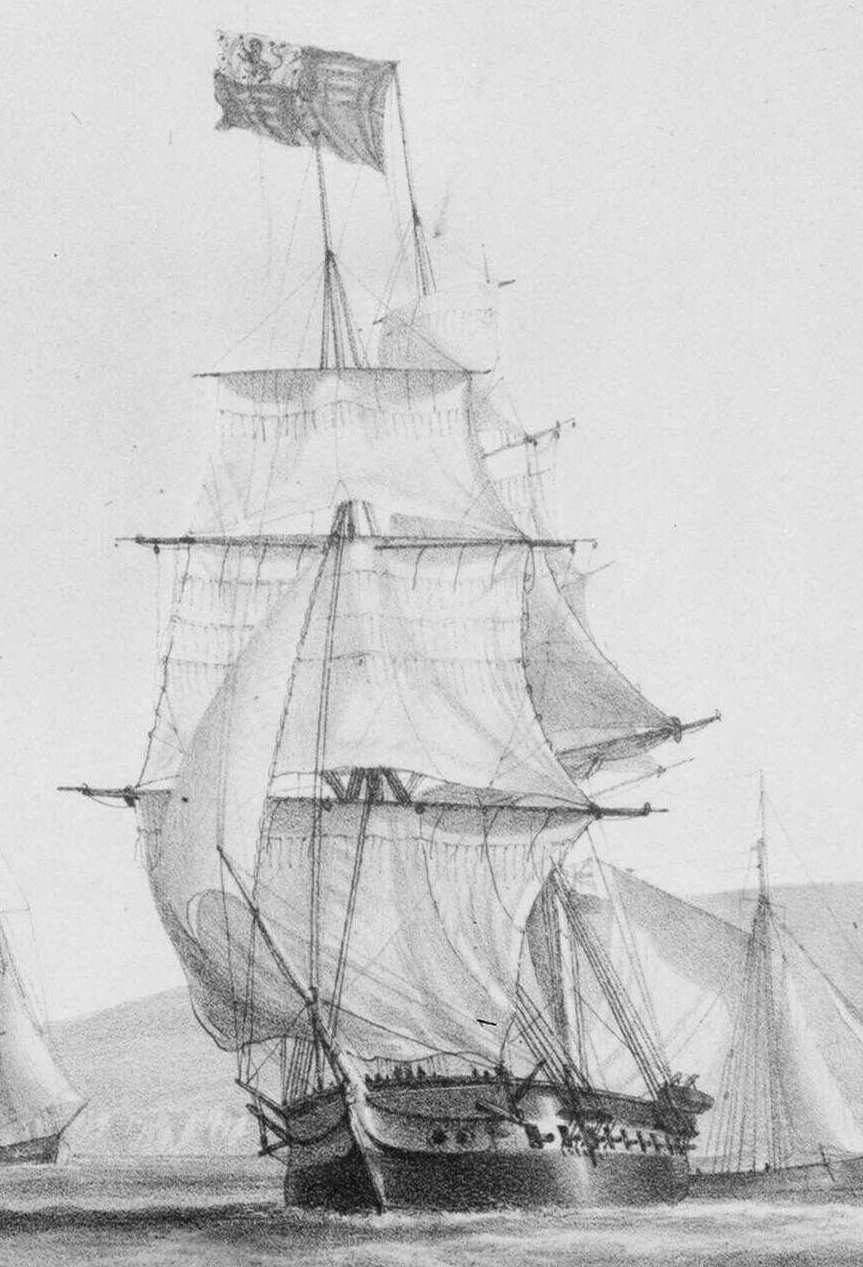 His Majesty's Ship the Vestal frigate, commanded by Captain William Jones. Having their Royal Highnesses the Duchess of Kent and the Princess Victoria on board, off Culver Cliffs on the 24th July 1833